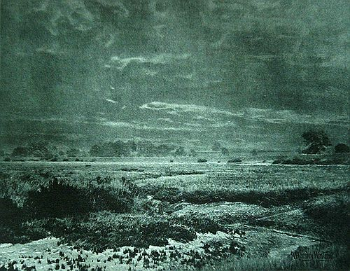 Prés salés (en: Salt Marshes), a photograph of the Essex salt marshes by English pictorialist photographer Alfred Horsley Hinton (1863–1908). This photograph was exhibited at the Photo Club of Paris's 1st Exposition of Art Photography in 1894, and appeared in Hinton's 1898 book, Practical Pictorial Photography.